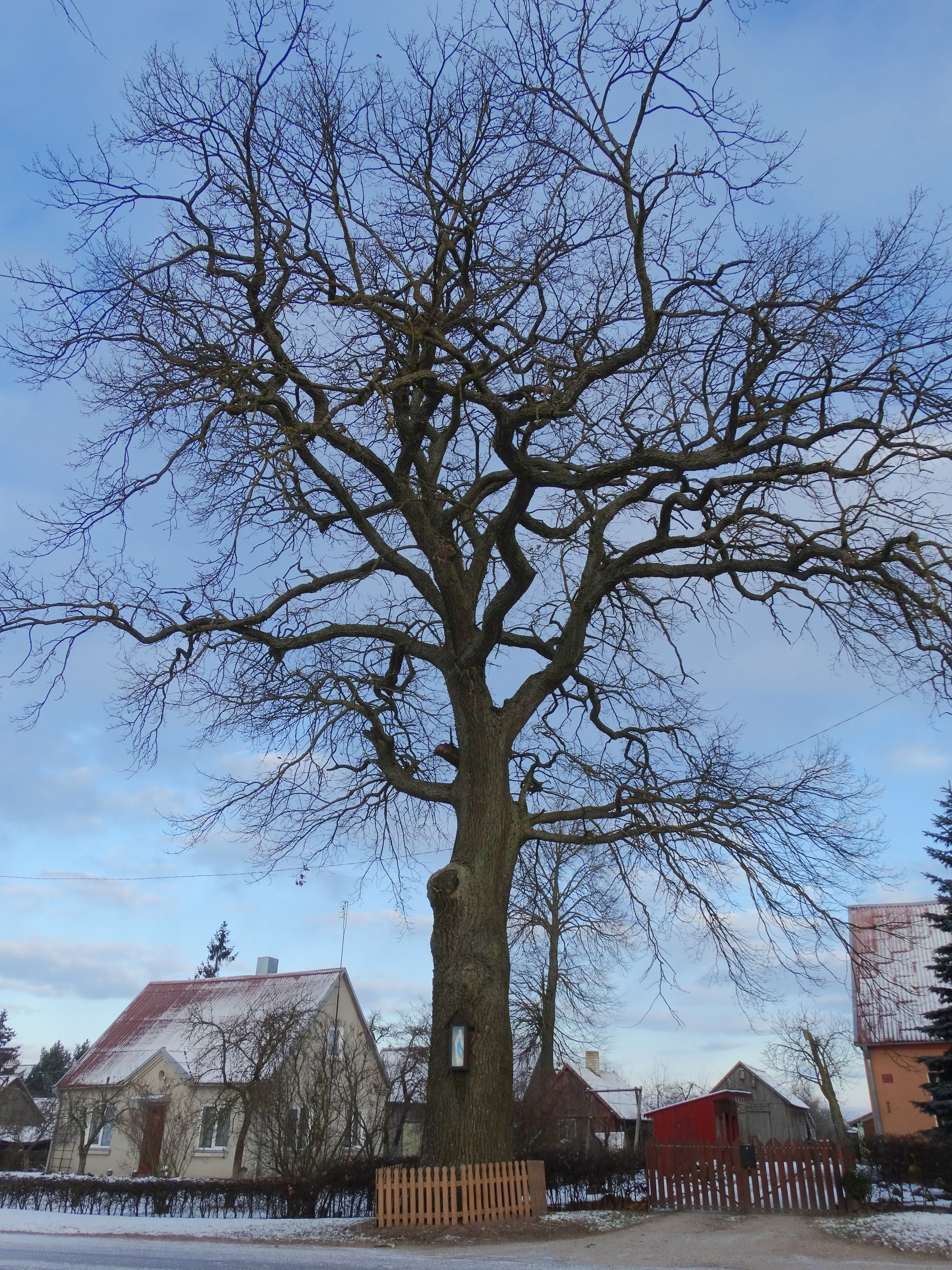 Aukštelkai Oak, Radviliškis District, Lithuania